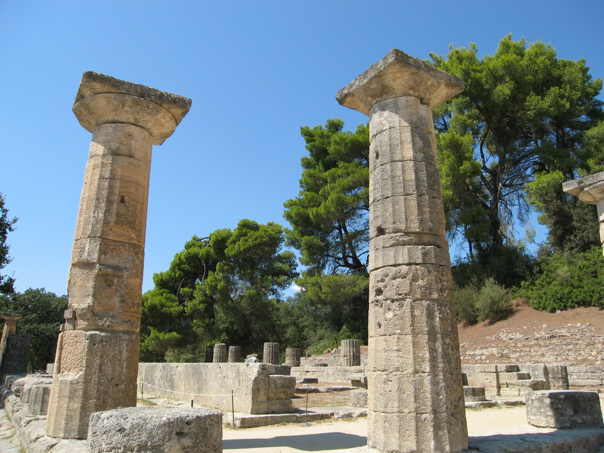 Olympia, Greece